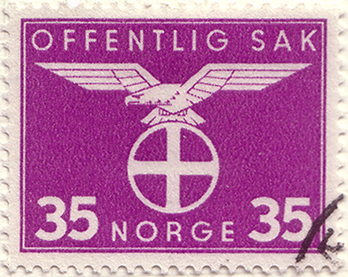 Government service stamp issued by the Nasjonal Samling (NAZI) government of Vidkun Quisling during World War II. Illegal after end of war May 1945.